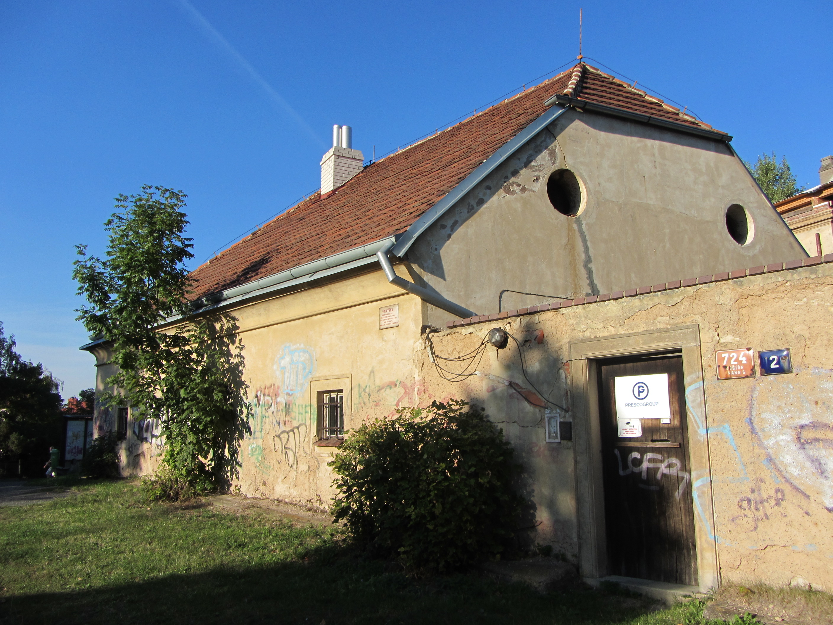 Homestead Šmukýřka, Košíře, Prague